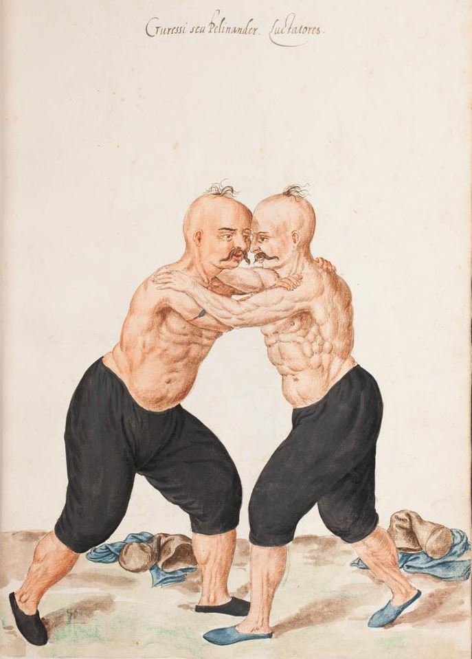 Illustration from the Turkish Costume Book by Lambert de Vos (Bremen, Staats- und Universitätsbibliothek, ms. Or. 9)